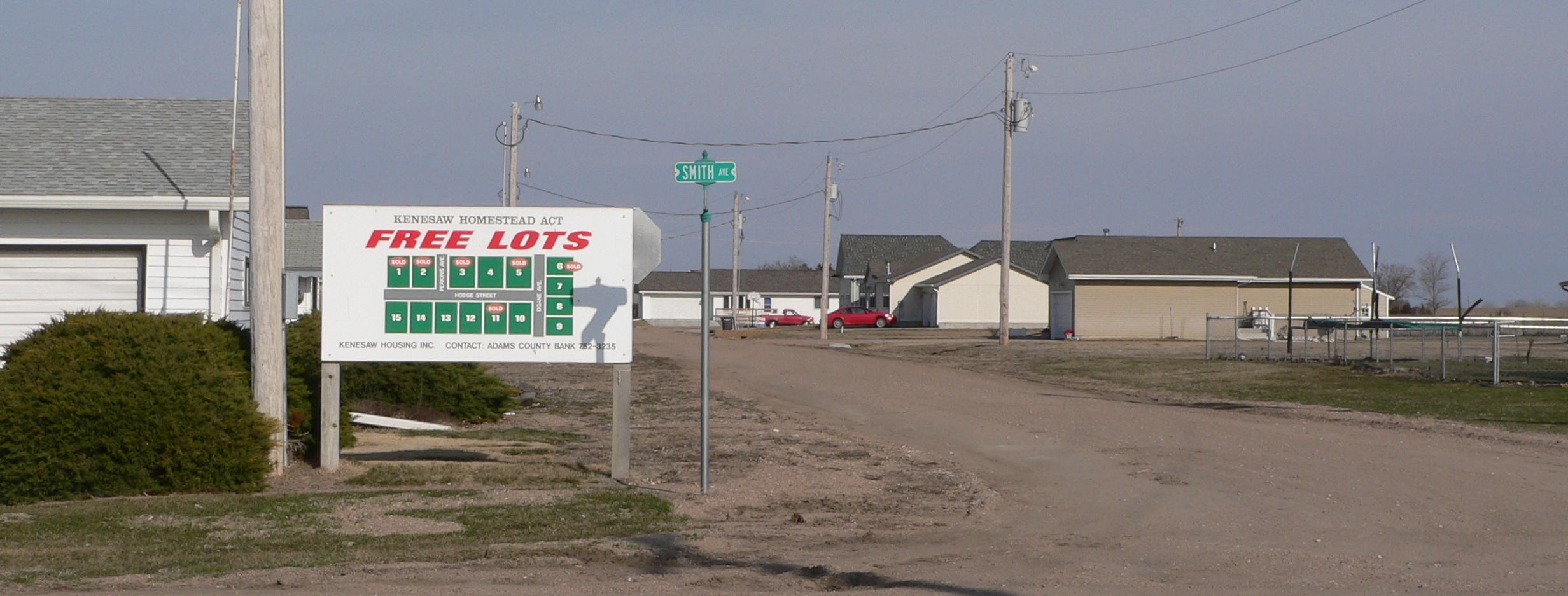 21st-century homestead sites in Kenesaw, Nebraska.